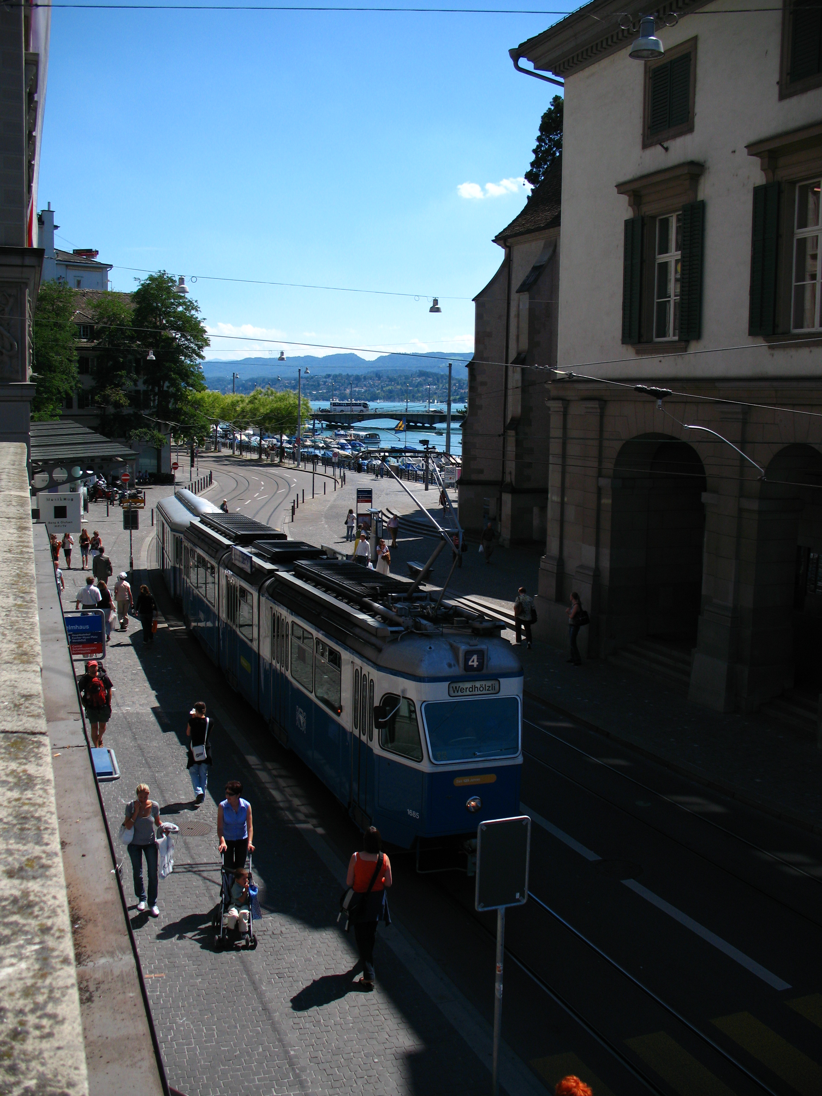 Limmat-Quai, Zürich, Switzerland